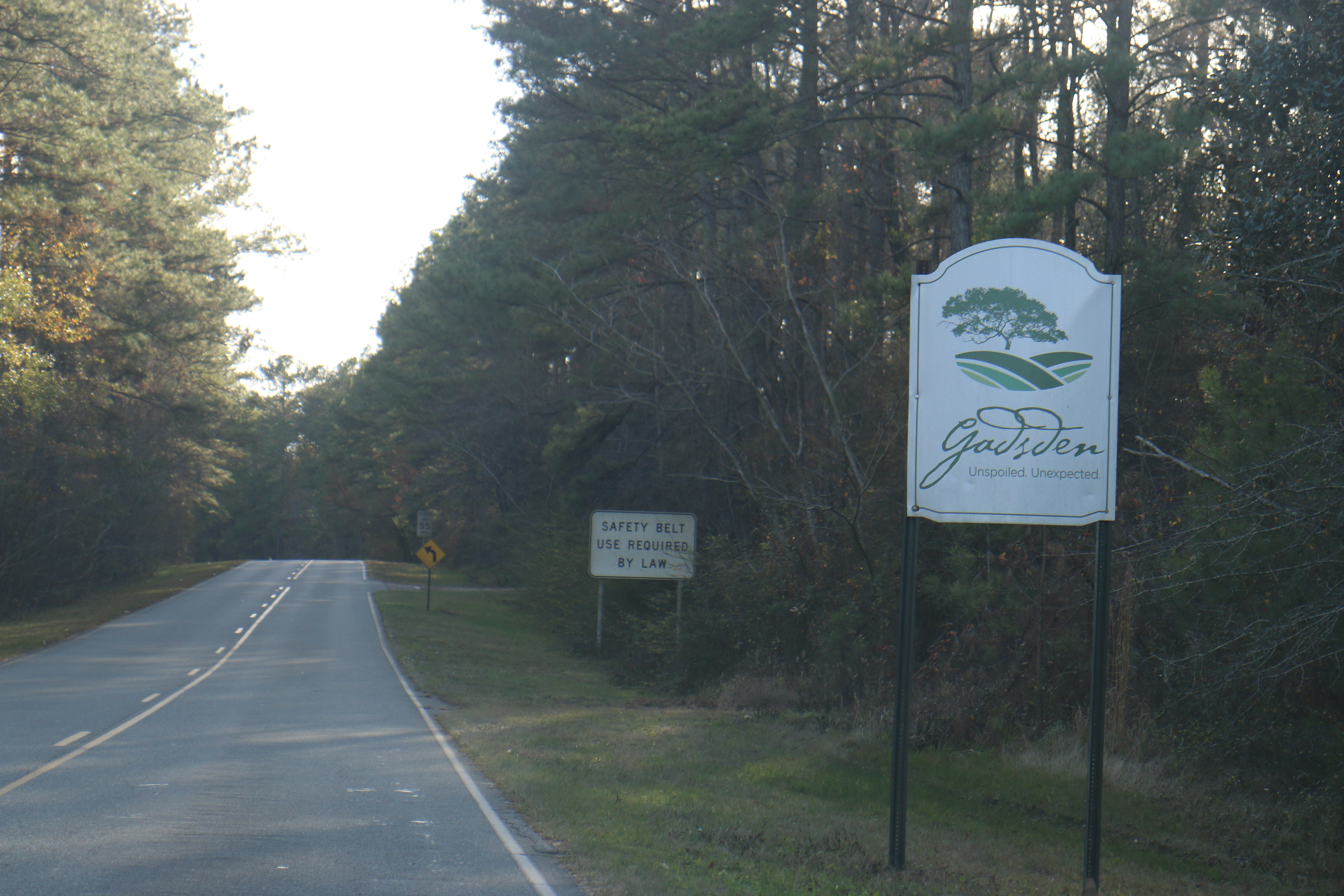 The sign for Gadsden County, Florida on Georgia State Road 97.